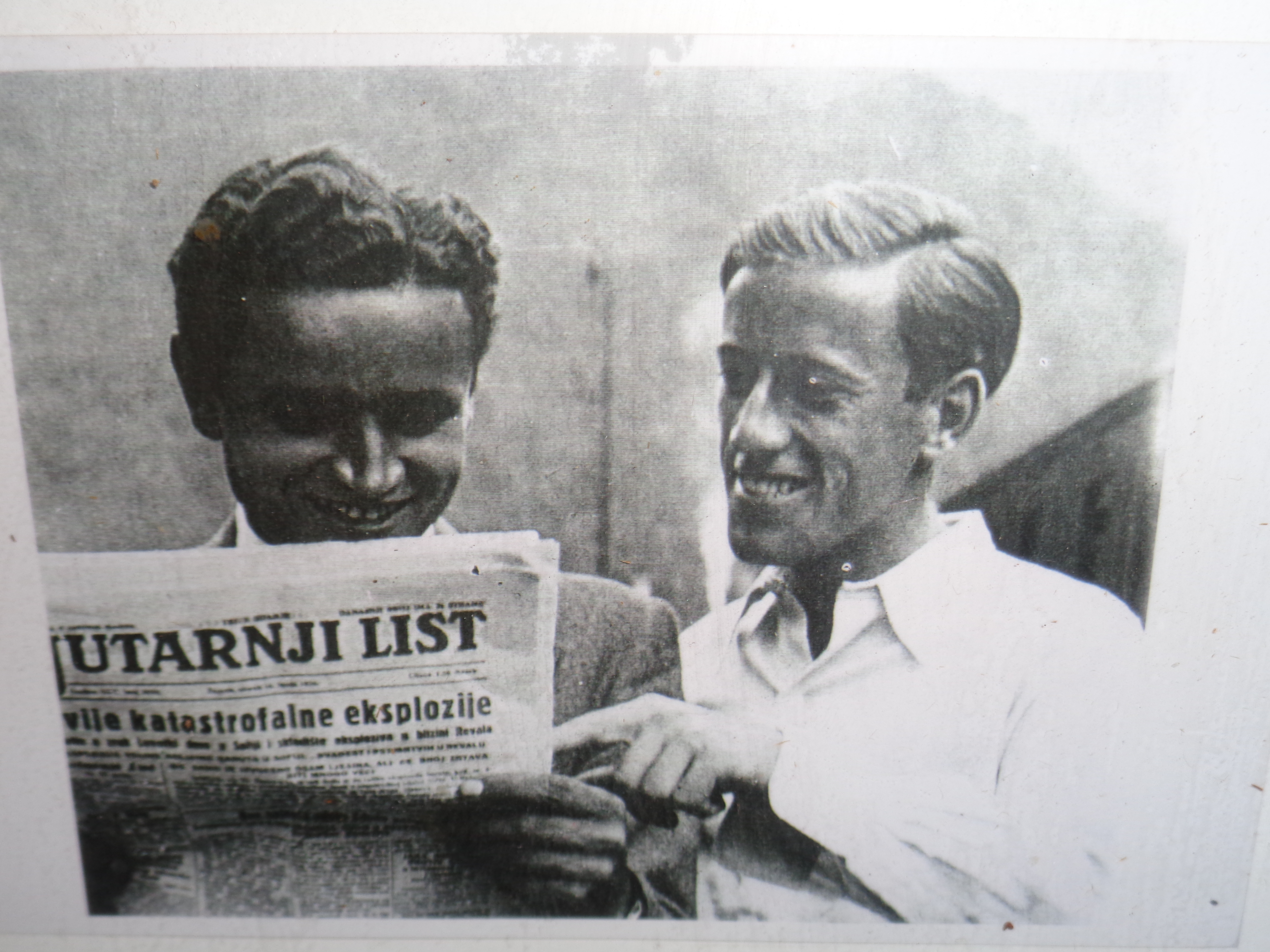 Franjo Punčec (1913-1985) and Josip Palada (1912-1994), Croatian tennis players